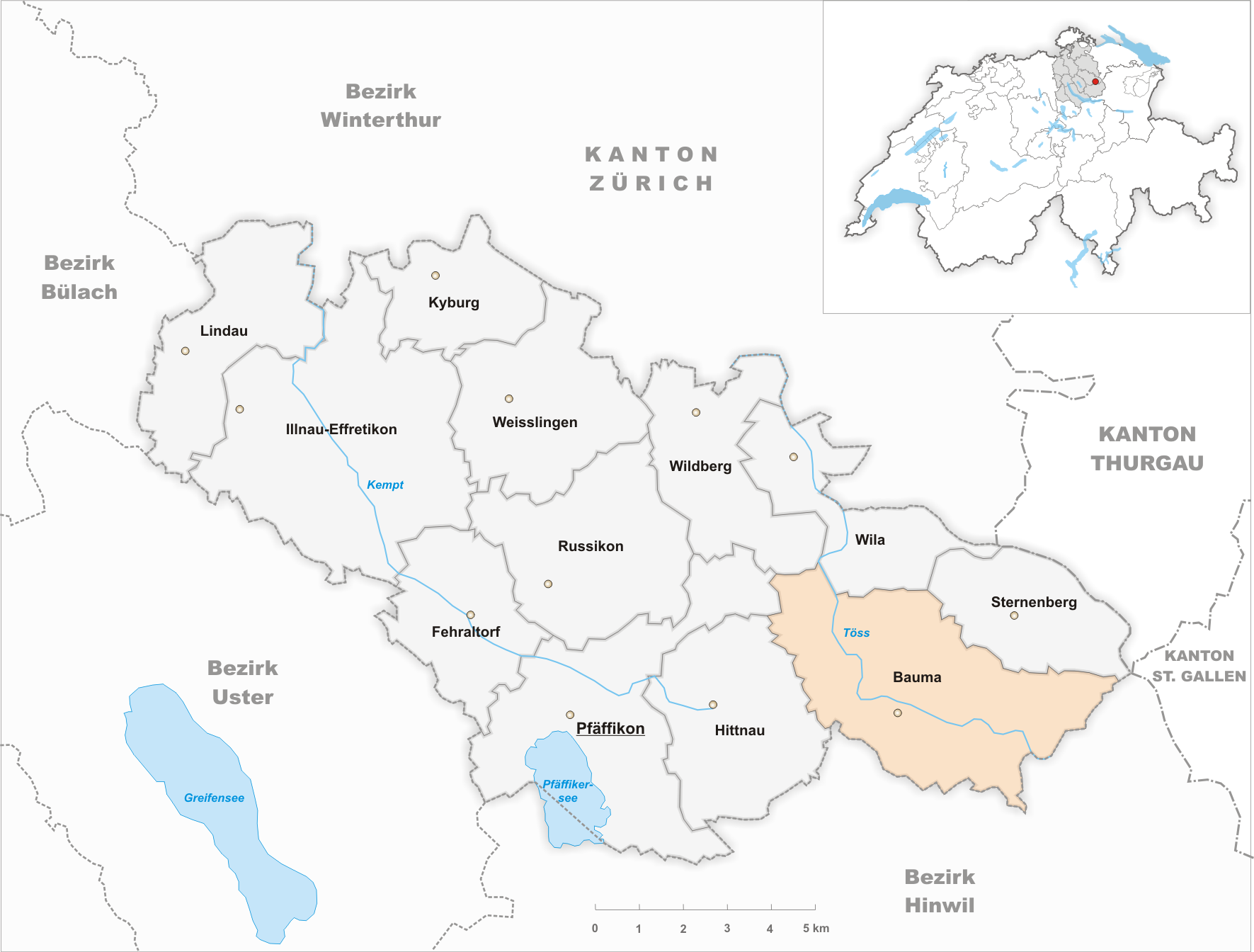 Municipality Bauma